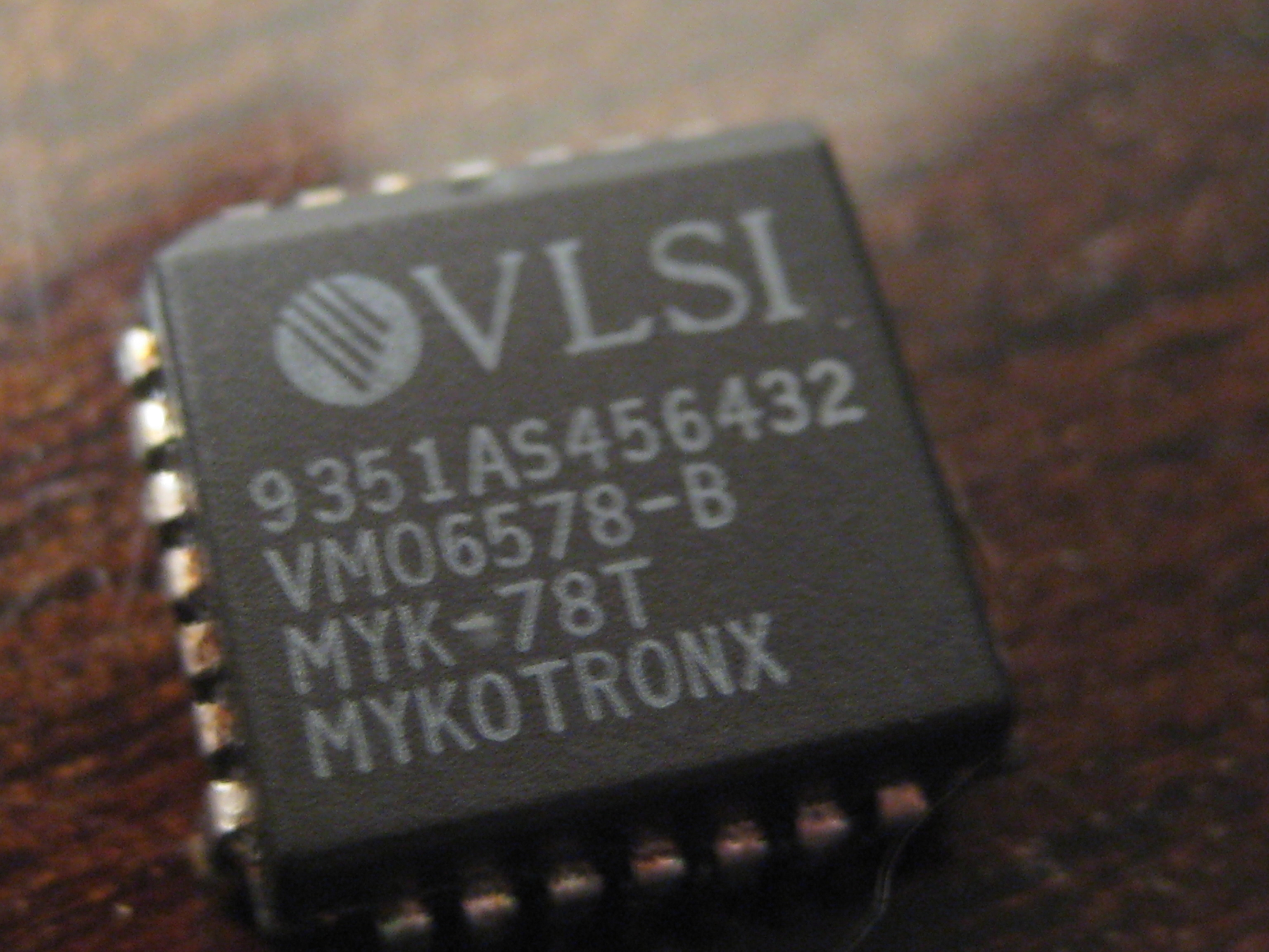 MYK-78 "Clipper chip" Package Markings